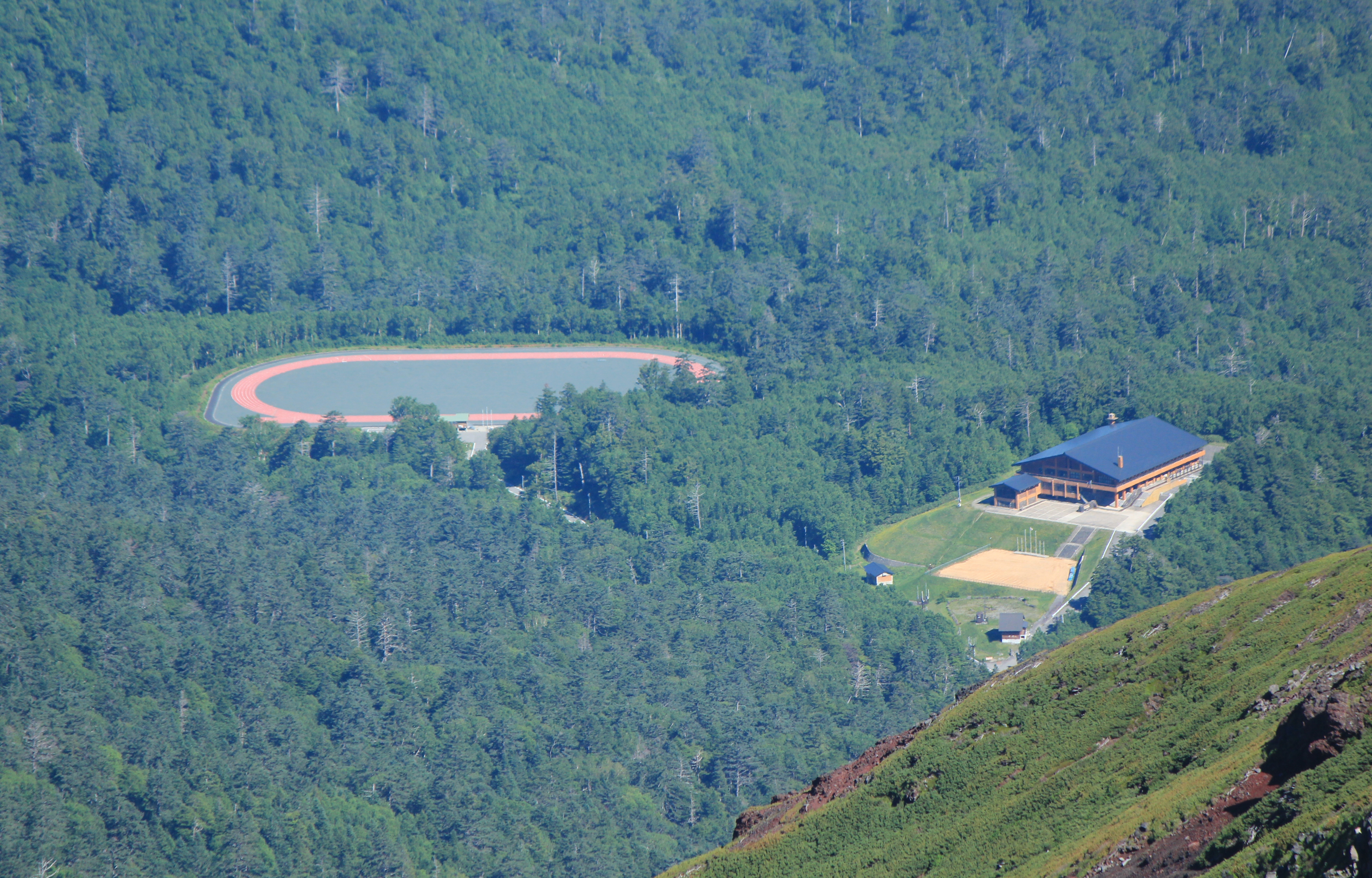 Nigorigo Onsen zoon of Hida Ontake highland High-altitude training area, seen from Mount Marishiten of Mount Ontake in Gero, Gifu prefcture, Japan.